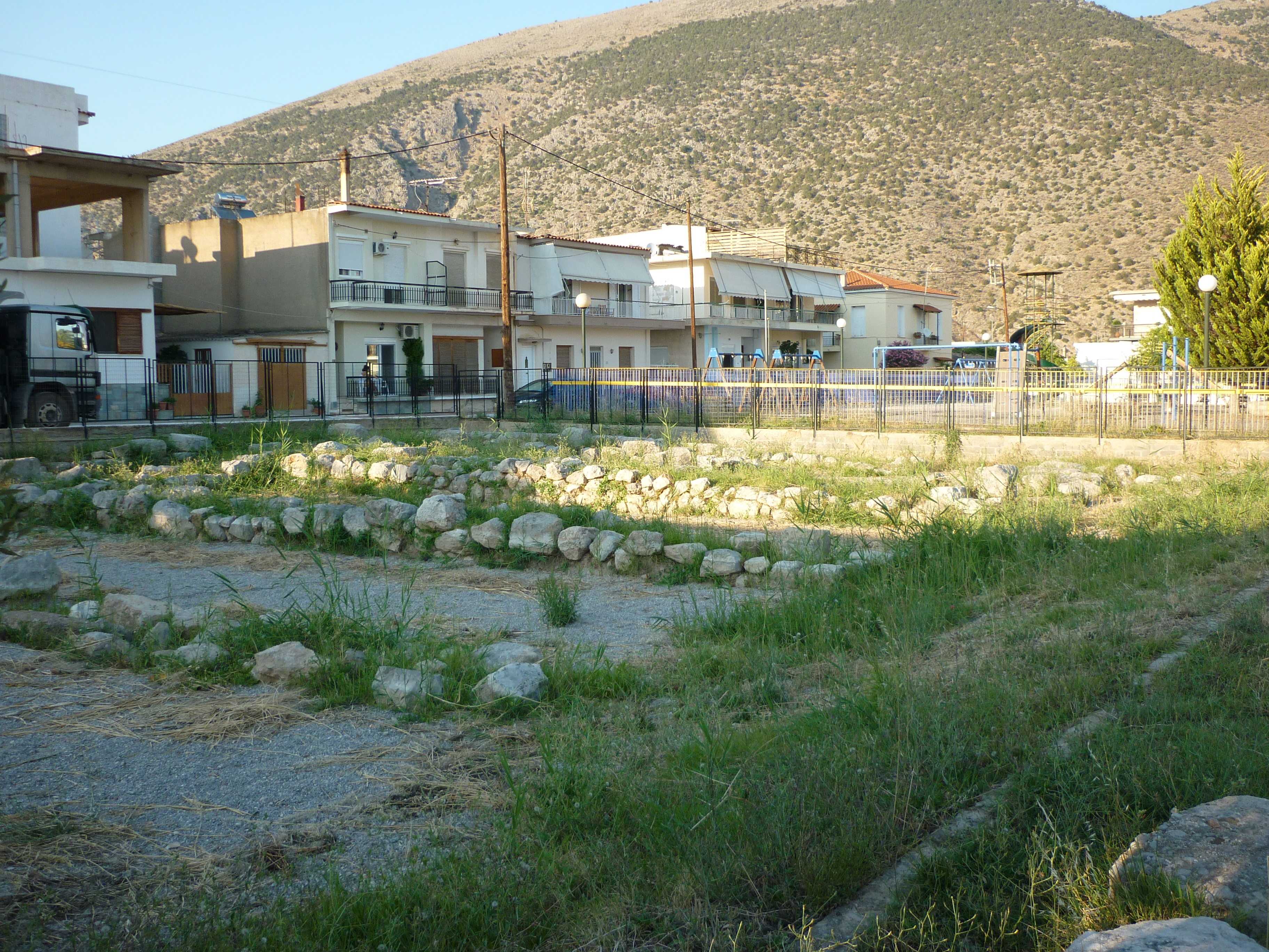 Kirra, Fokida, Greece: Foundation walls of ancient shipyards at the main square.